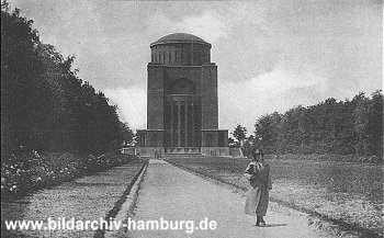 Water-tower Hamburg-Winterhude (Germany), photo 1932